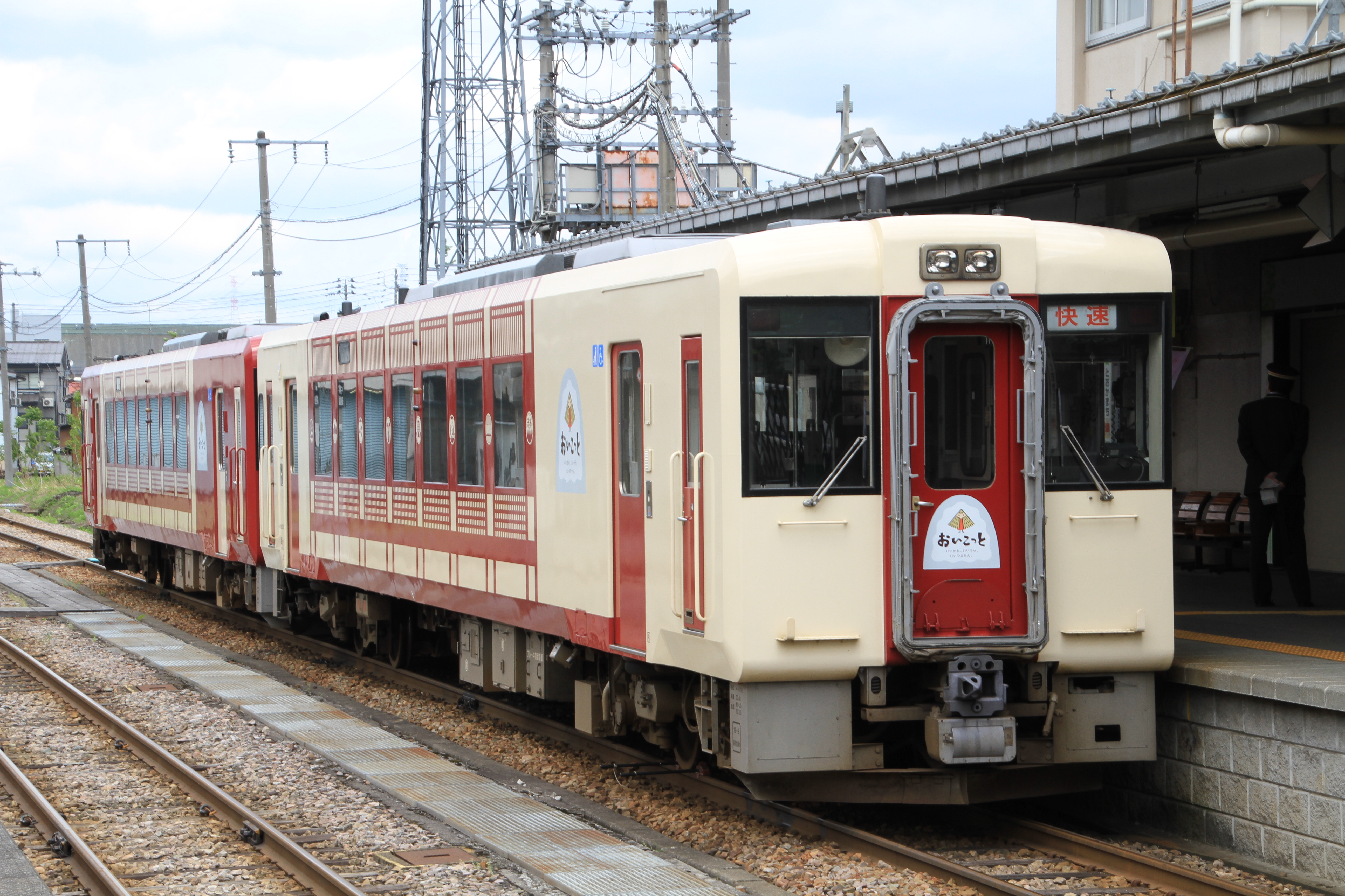 The JR East "Oykot" special event train formed of KiHa 110 series DMU cars KiHa 110-235 and 236 at Tokamachi Station